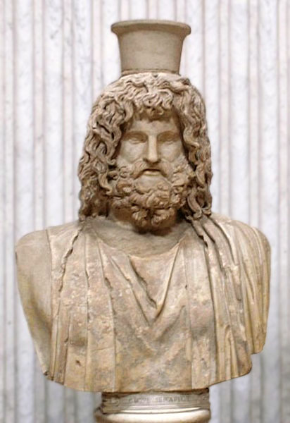 Bust of Serapis. Marble, Roman copy after a Greek original from the 4th century BC, stored in the Serapaeum of Alexandria.